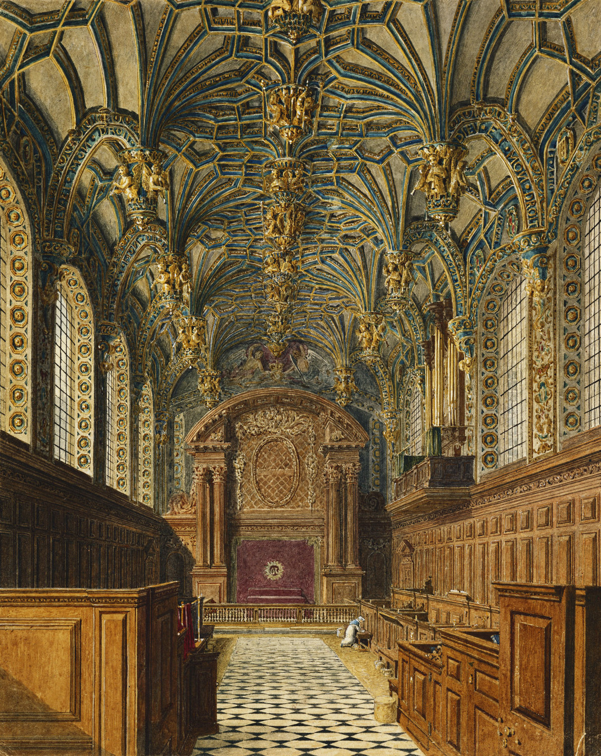 A view of the Chapel at Hampton Court Palace The aquatint engraving of this picture was published as plate 33 of W.H. Pyne (1819), The History of the Royal Residences